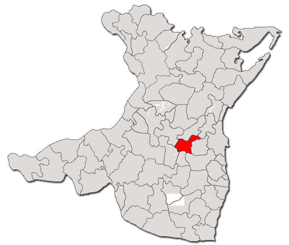 Countour map of Murfatlar town